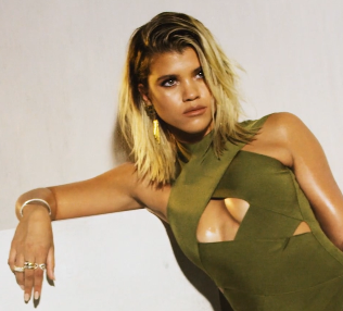 Image of model Sofia Richie at photoshoot